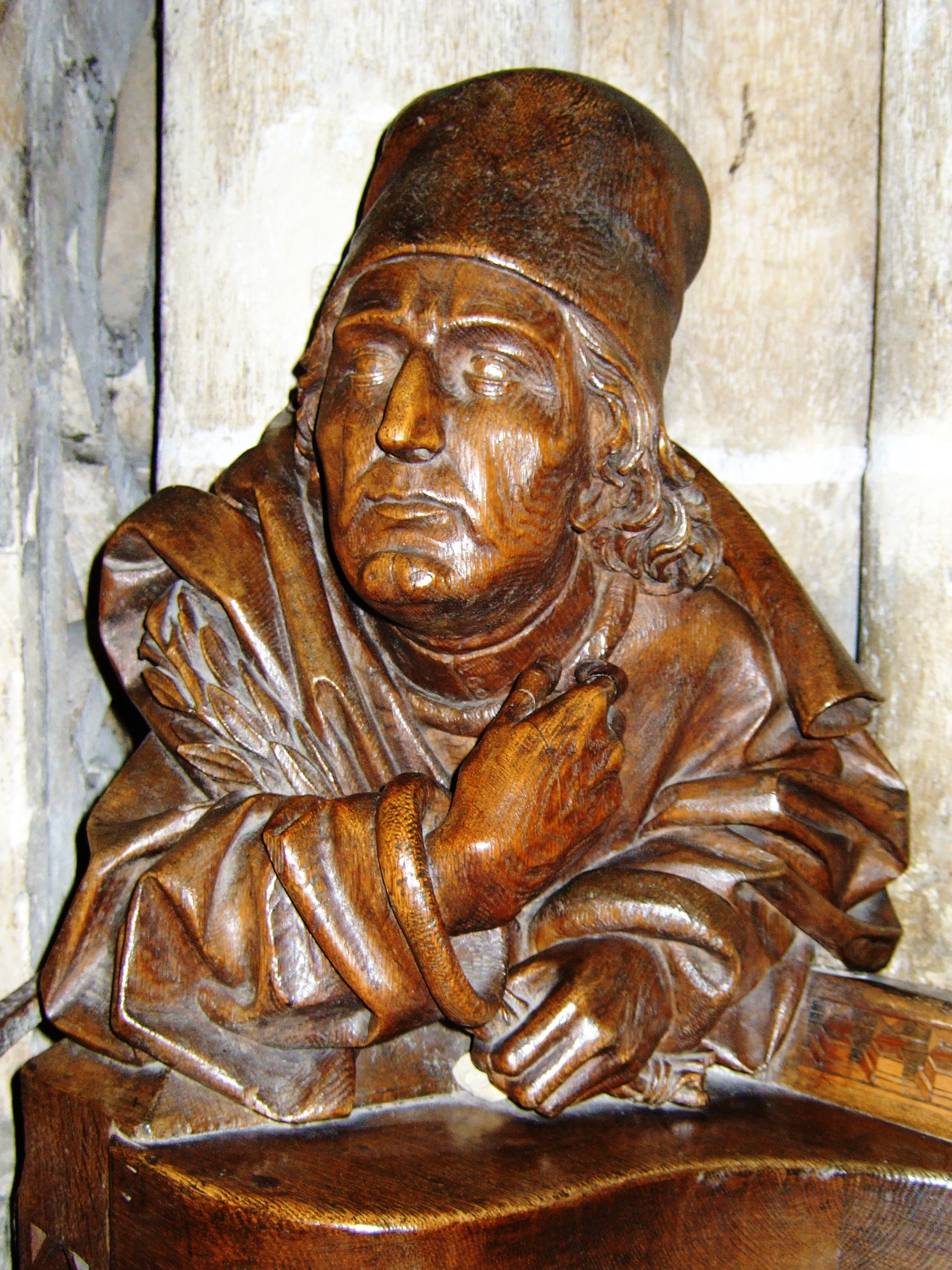 The Lutheran cathedral "Ulm Münster" of Ulm/Germany, carved bust of vergil, possibly a self-portrait of Jörg Syrlin the Elder